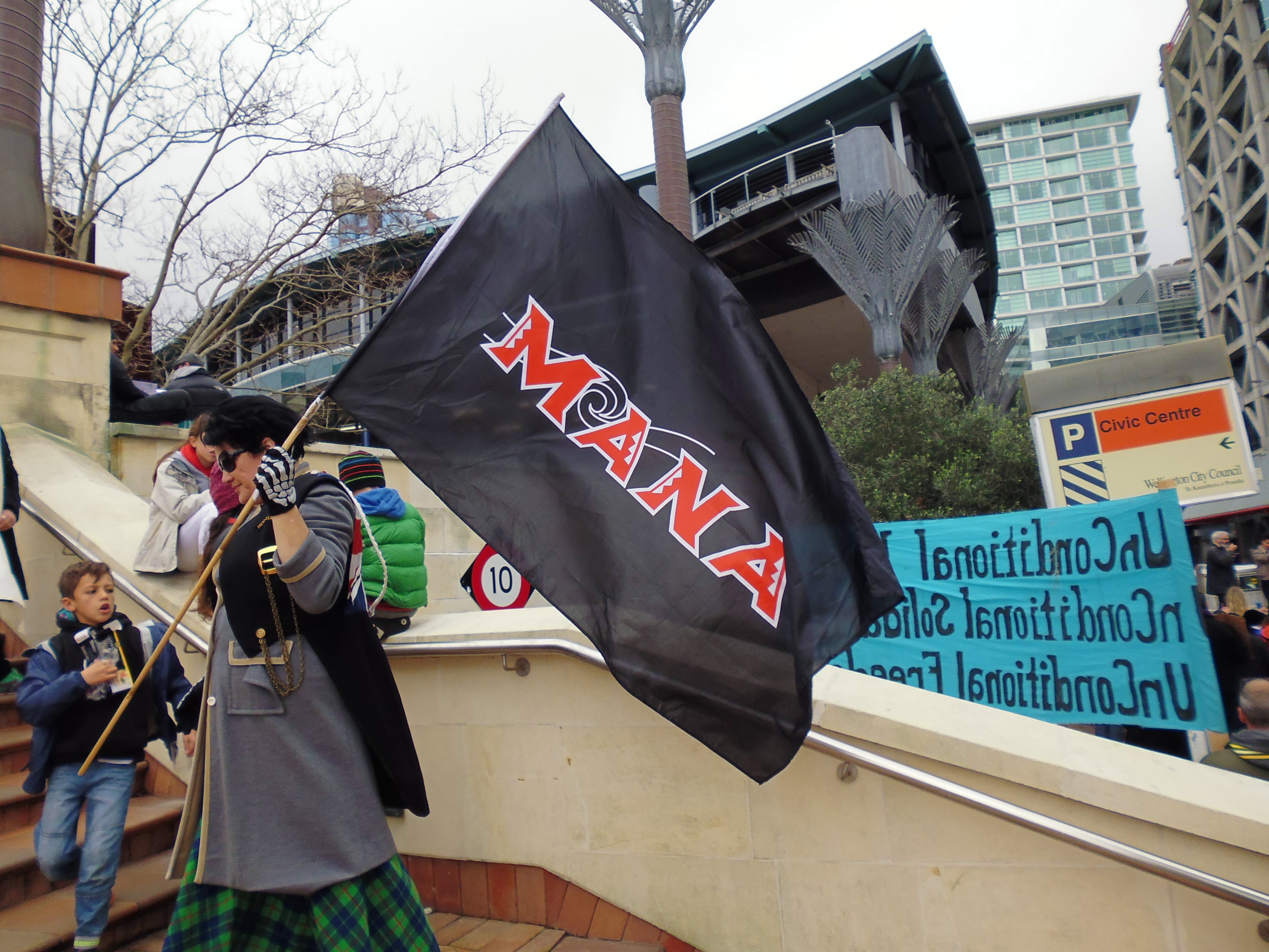 On 2 August 2014, a peaceful protest march was held in Wellington, New Zealand to protest the ongoing bombing of the Gaza strip by Israeli forces. Students for Justice in Palestine organised the march, while several other organisations (including political parties, unions, and socialist groups) had representatives present. The march began on Cuba Street and terminated at the Rabin Memorial near the Wellington City Library. The streets involved in the march were temporarily closed by police during the march. Speeches were made by a wide variety of people at both the origin and terminus of the march. At the terminus of the march, stones with the names of people killed in Gaza during the 2014 conflict were laid next to the Rabin Memorial. Some protesters called for the Rabin Memorial to be removed entirely. The march was reasonably well attended, with several hundred participants. The weather held out for the duration of the march and speeches.